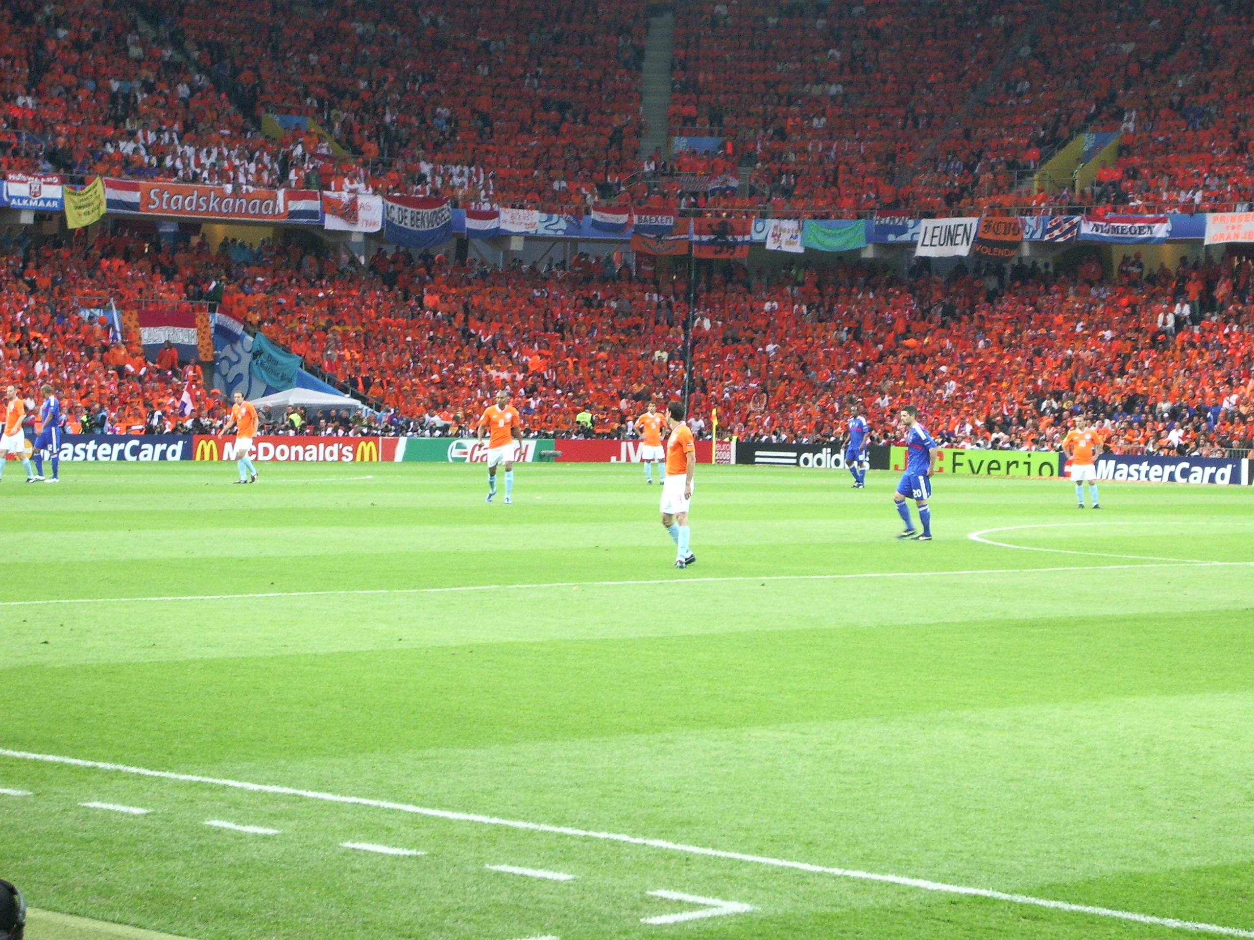 Orange is the color of the Dutch team. During Euro2008 the corner where the dutch supporters are hosted turns orange. During Euro2008 match Holland-France on 13.06.2008